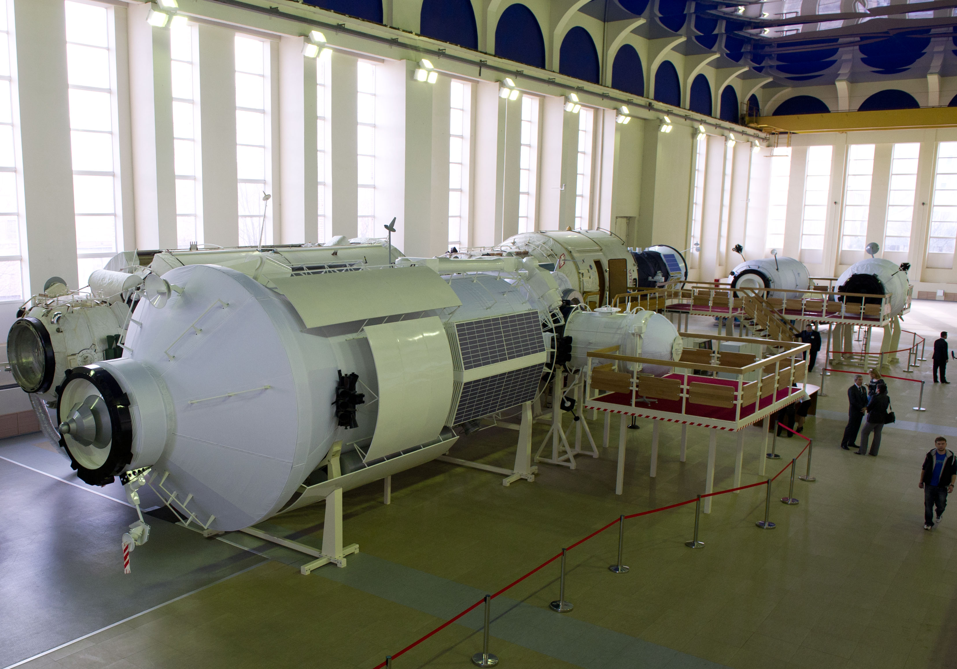 International Space Station mock-up training modules are seen at the Gagarin Cosmonaut Training Center, April 23, 2012 in Star City, Russia. Expedition 31 prime and backup crew members train in these modules in preparation for final flight to the International Space Station. The Nauka mock-up is in the foreground. In the back from left to right, is Zarya, Pirs, Zvezda, Soyuz, Ressvet and Poisk.